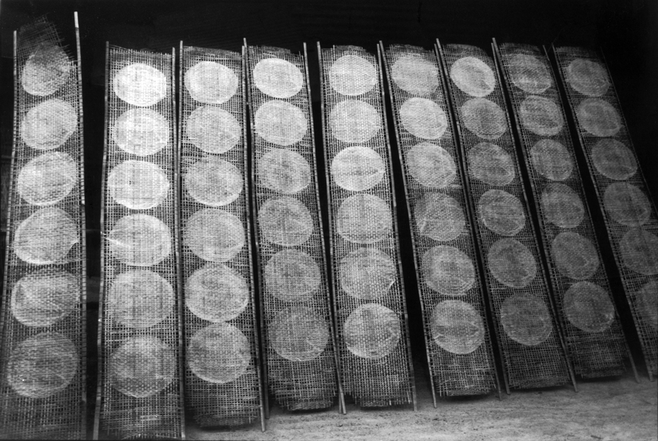 Rice paper (bánh tráng) drying somewhere along the Mekong